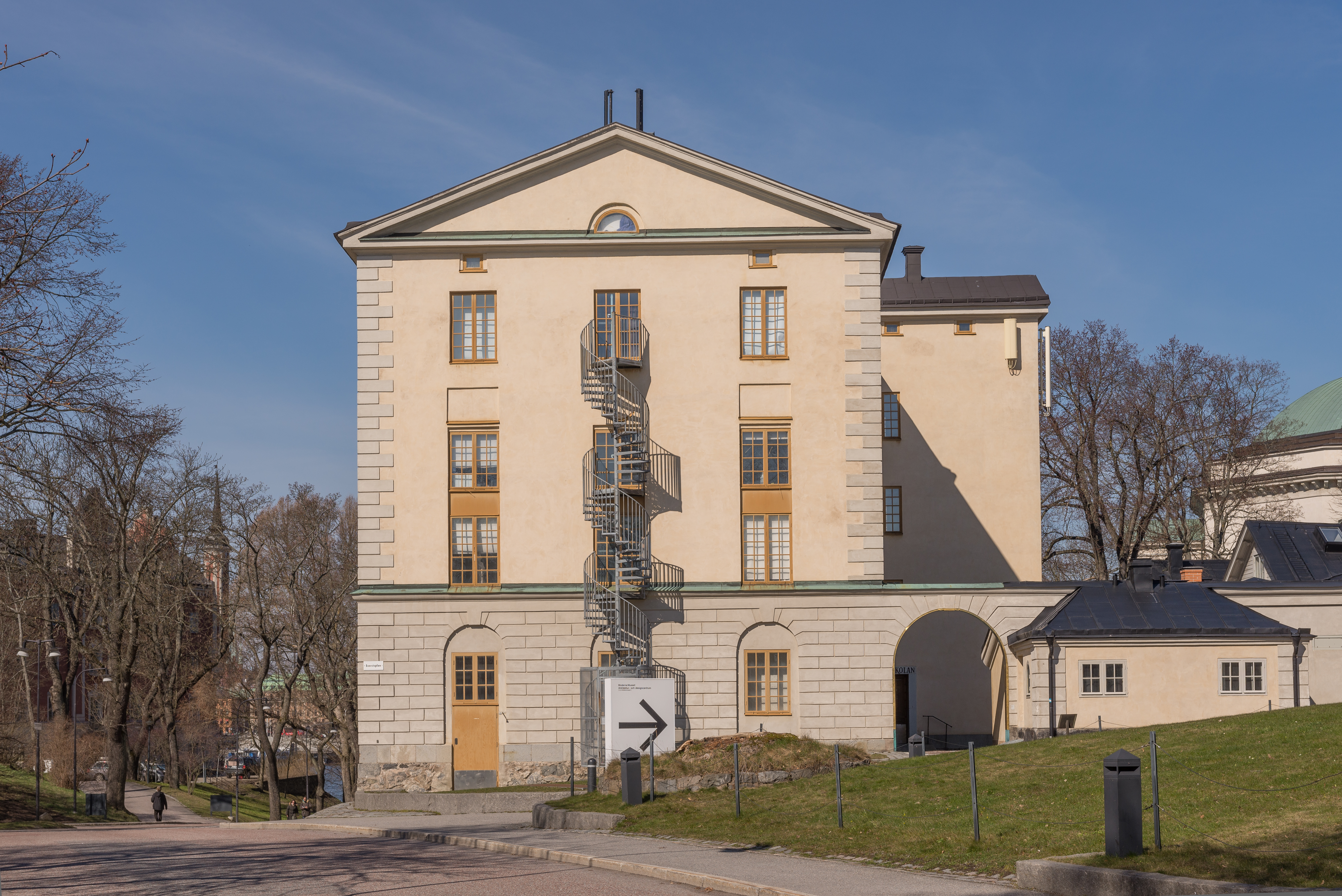 Båtmanskasernen, historic navy building at Skeppsholmen, Stockholm.